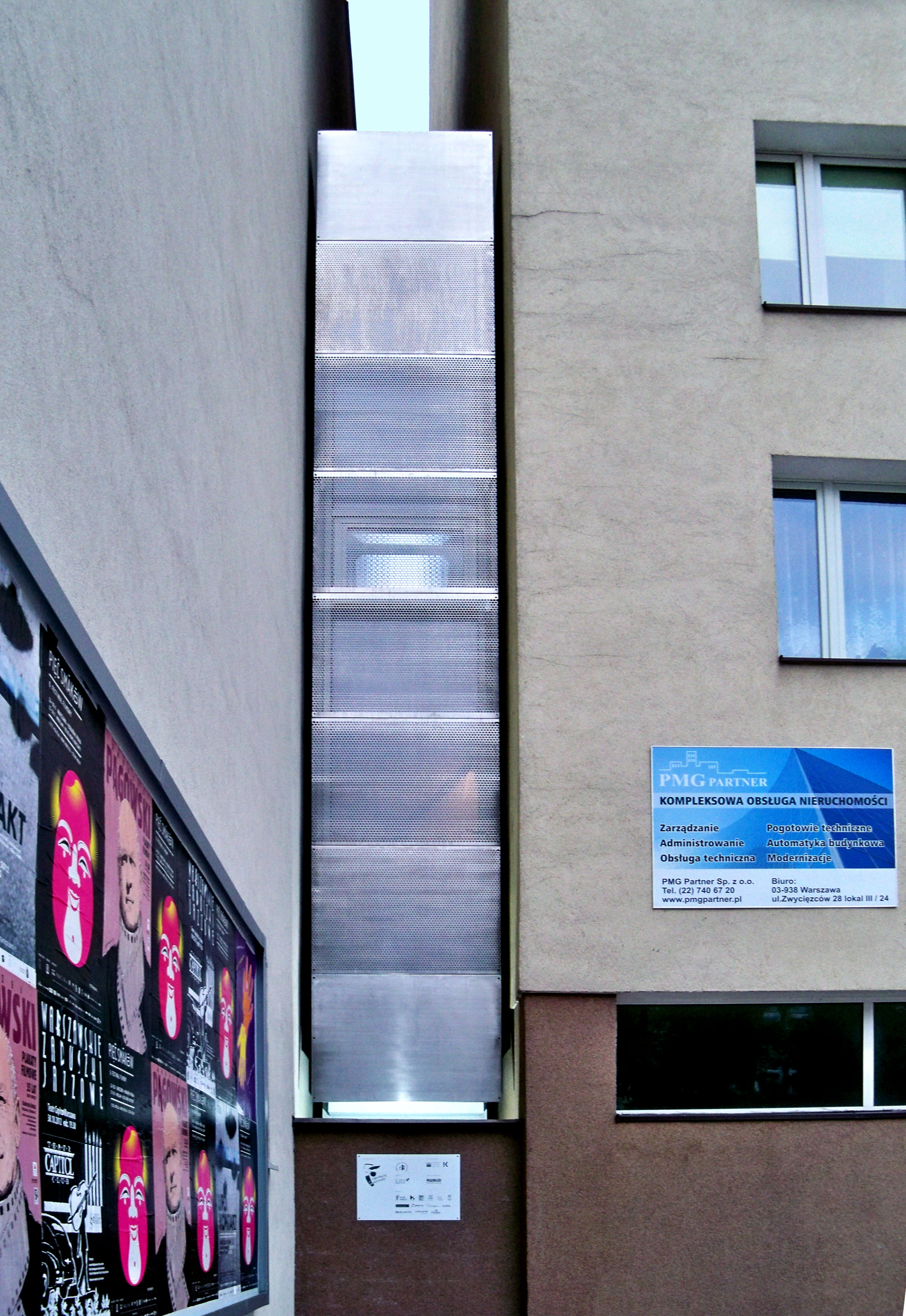 Keret House in Warsaw.